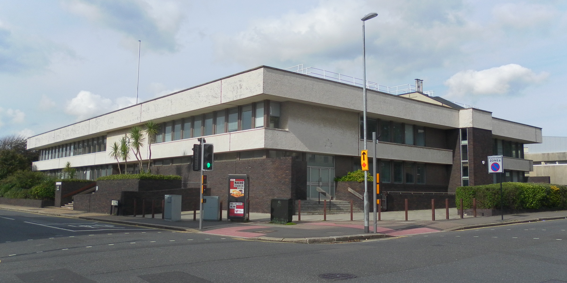 Hove Courthouse, Holland Road, Hove, City of Brighton and Hove, England. Built in 1971–72 to a design by Fitzroy Robinson & Partners.